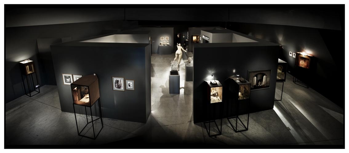 A panorama shot of the All Visual Arts gallery space at 2 Omega Place, London